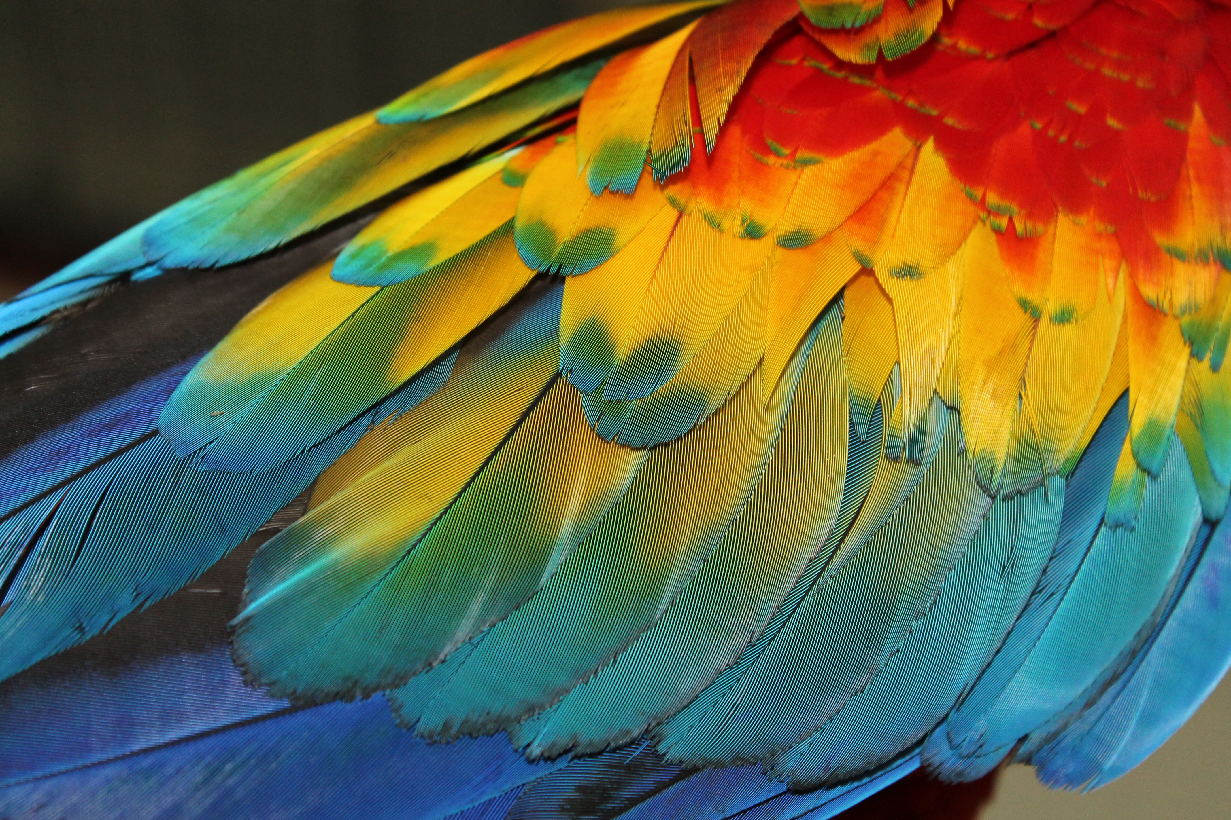 Wing of Scarlet Macaw. It's so colorful.